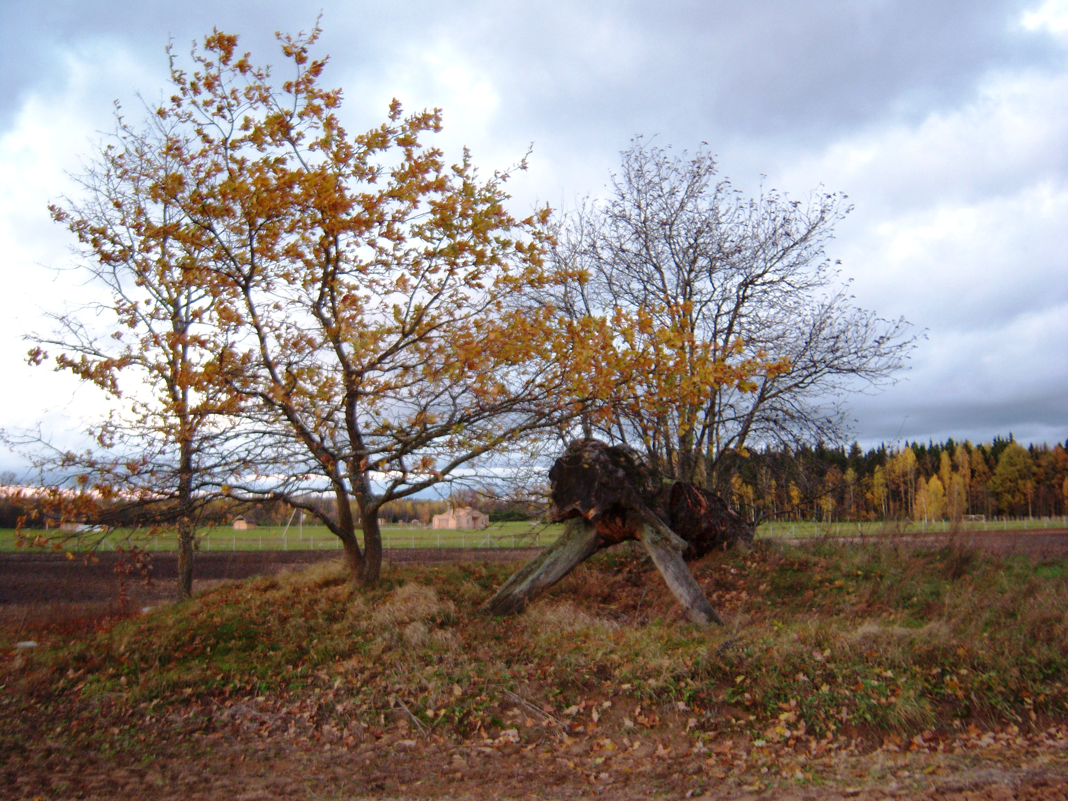 Remains of the pine tree called Milžinkapis in Girininkai I Village, Kaunas District, Lithuania